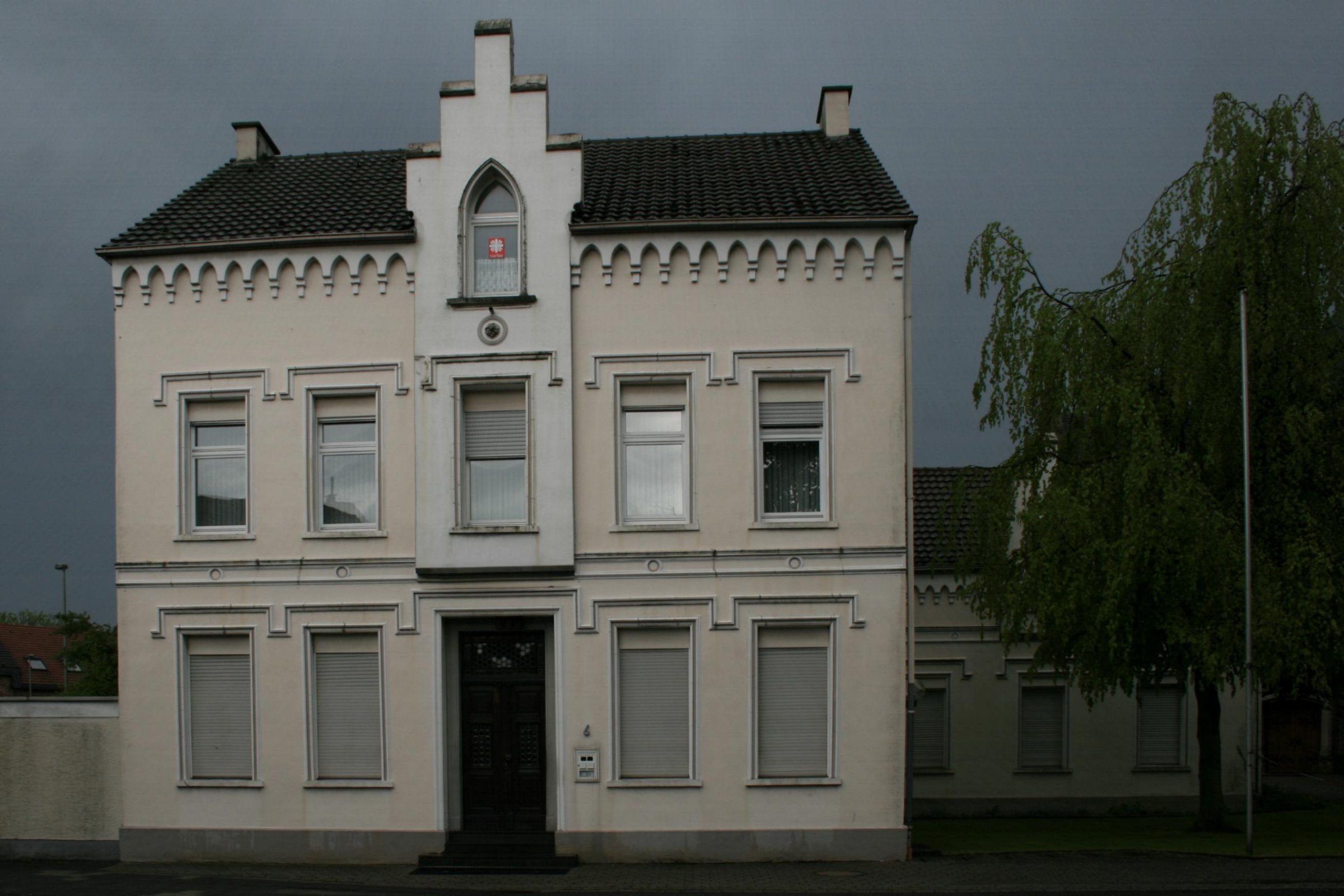 Cultural heritage monument No. M 056 in Mönchengladbach